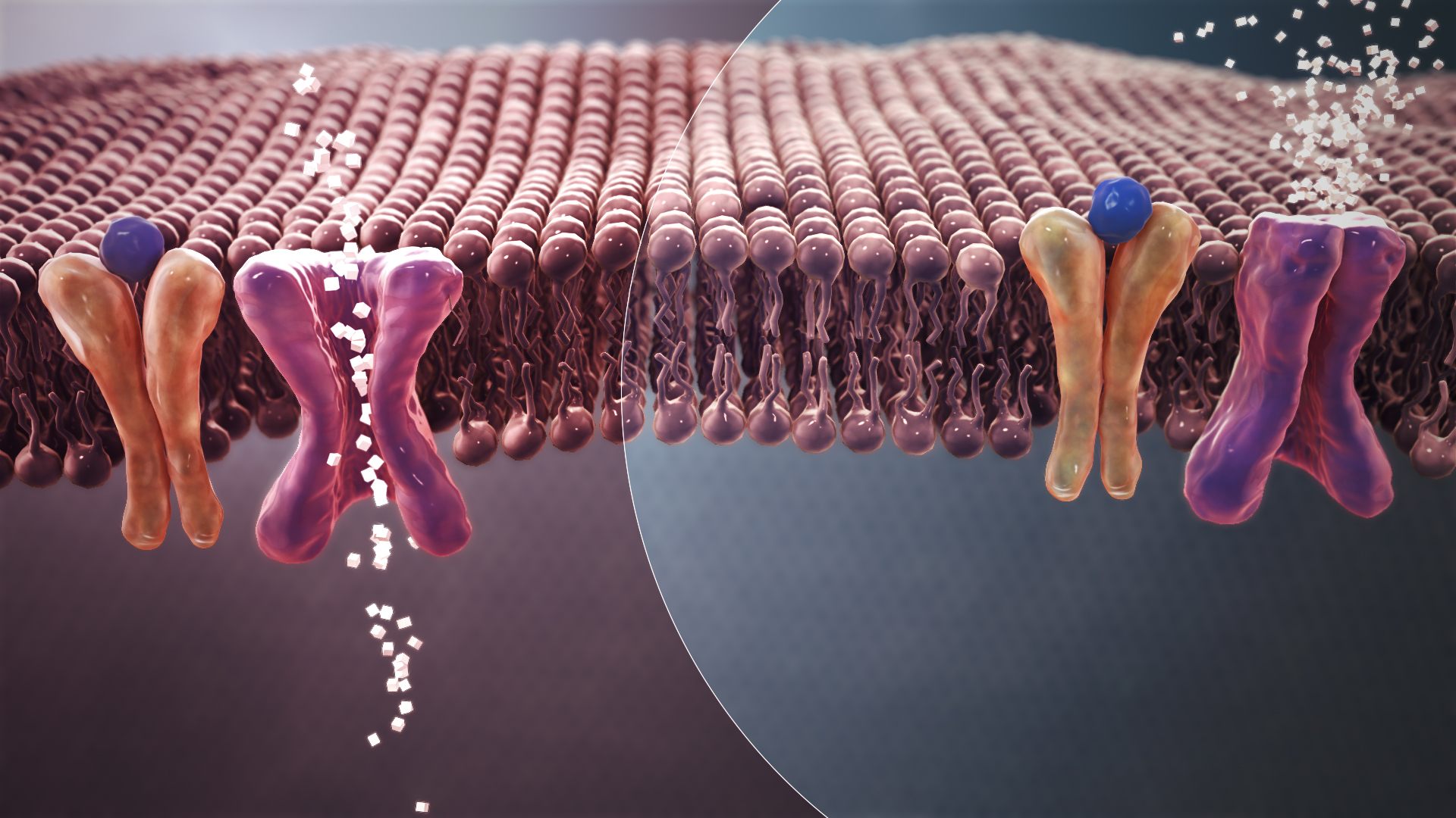 Mechanism of normal Blood Sugar absorption (Left) Vs. insulin resistance in Type 2 Diabetes (Right).